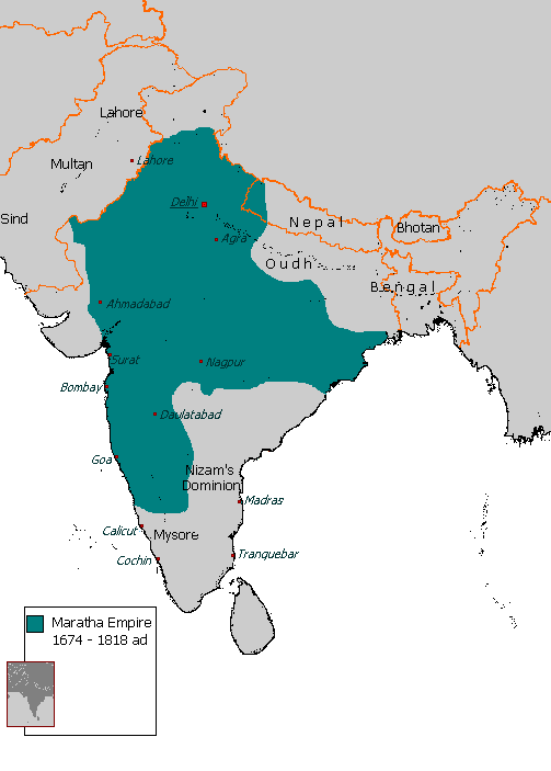 Maratha Empire 1674 - 1818 ad